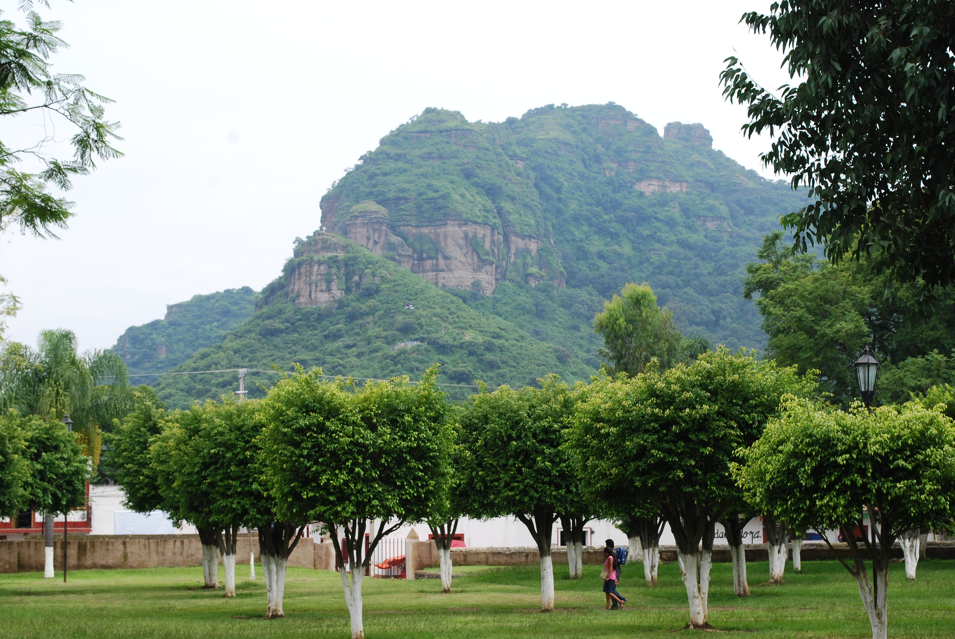 View of the Cerro de Sombrerito from the atrium of the San Juan Bautista monastery in Tlayacapan, Morelos, Mexico